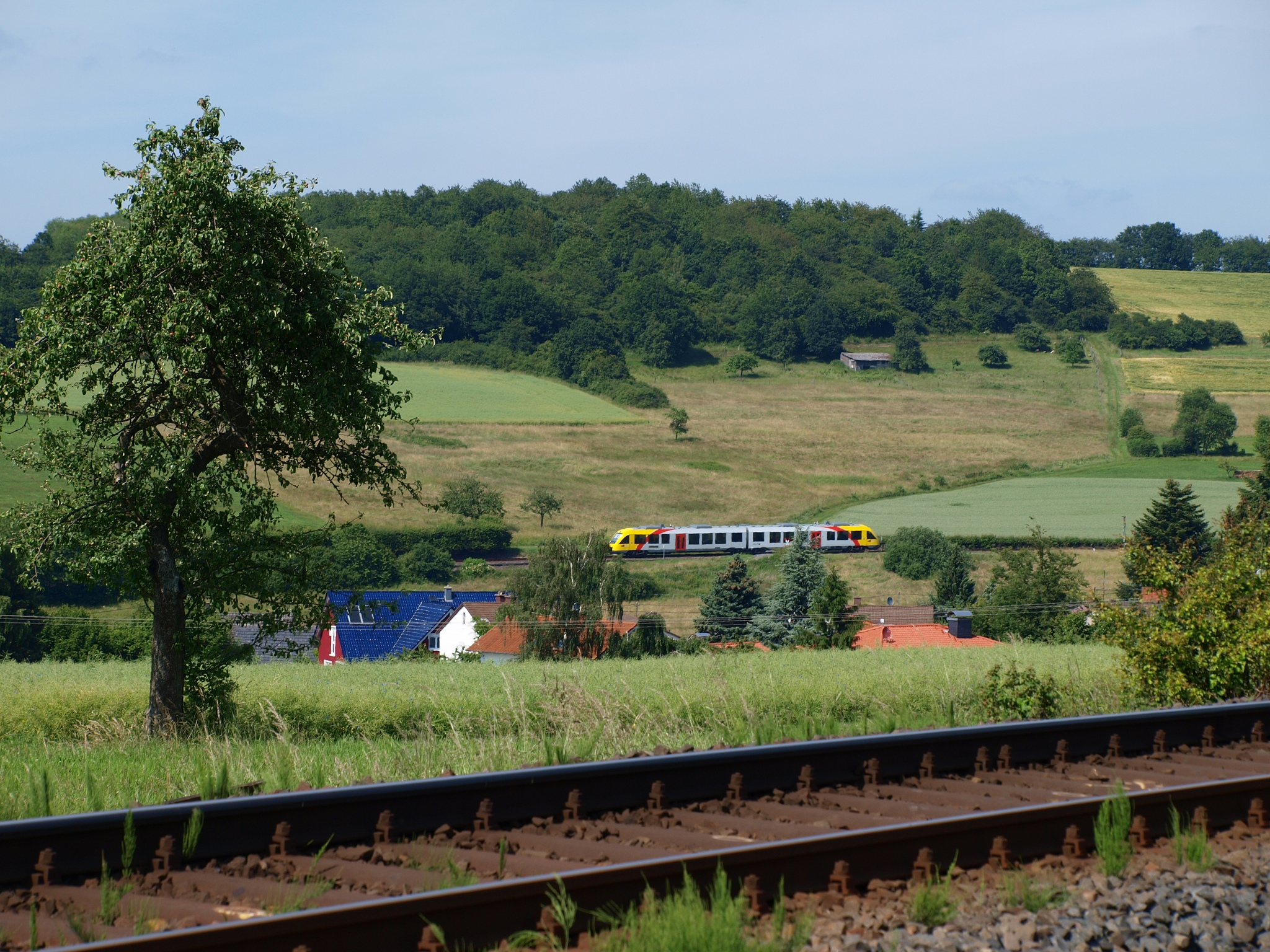 A LINT 41 runs on the horseshoe curve at Hundstadt on the Taunusbahn and will pass the tracks at the bottom of the pictures in a few moments.